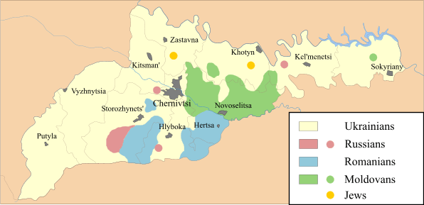 Ethnic composition of Chernivtsi Oblast in the 1980s. See also The results of the 2001 All-Ukrainian population census for the Chernivtsi oblast.